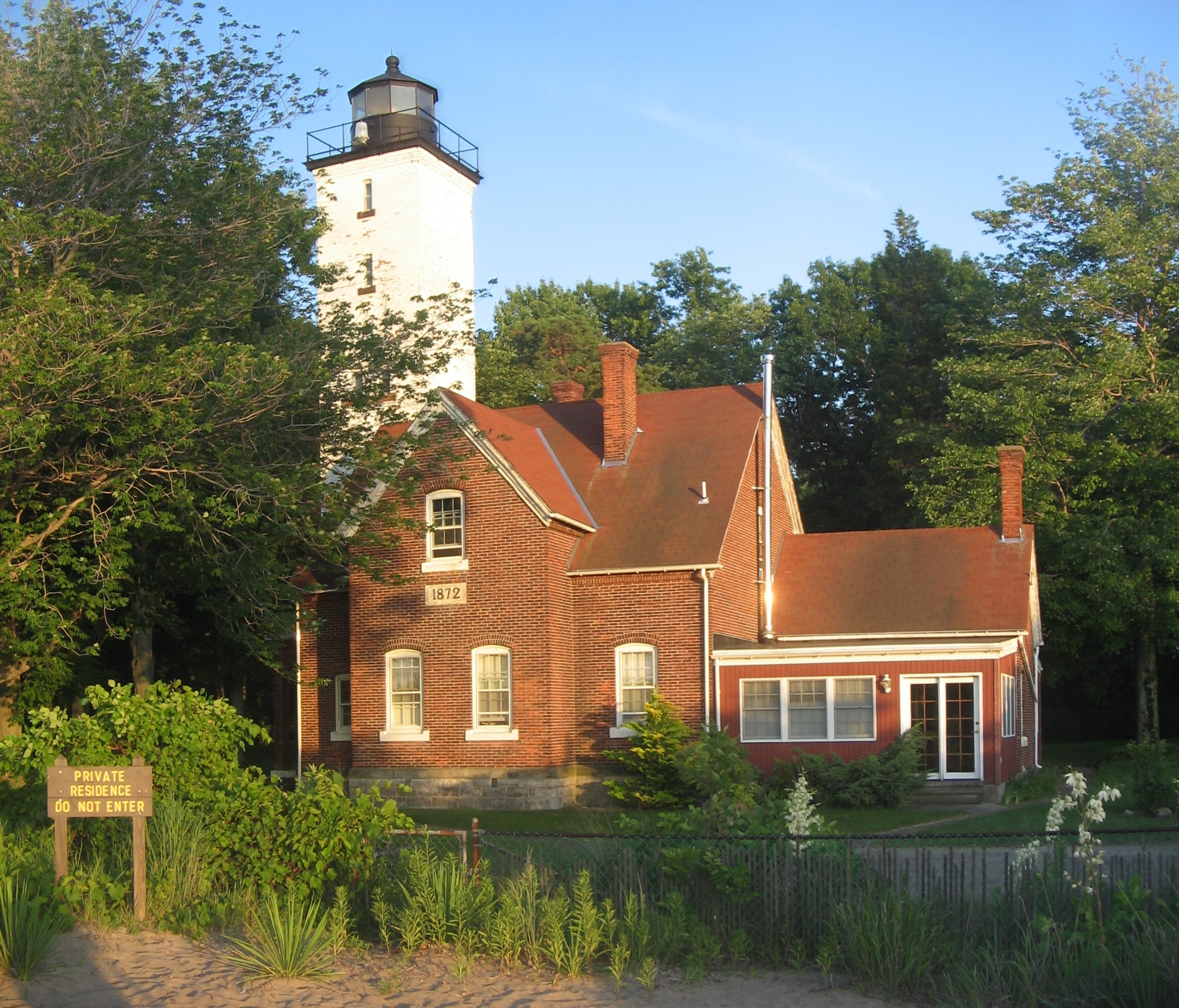 Presque Isle Light at Presque Isle State Park in Erie County Pennsylvania, United States